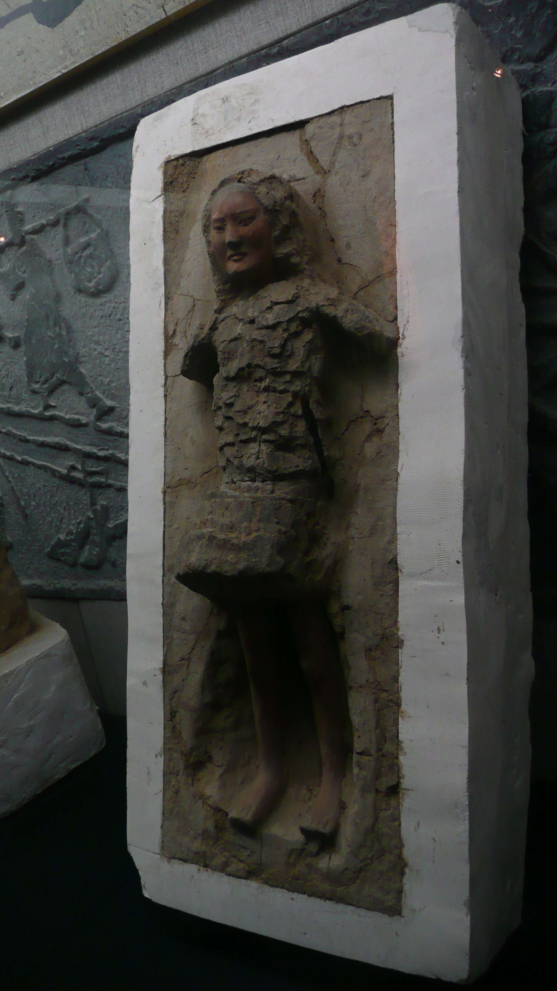 Han Yang Ling - Mausoleum of Jingdi, Han Emperor, Xianyang, near Xi'an